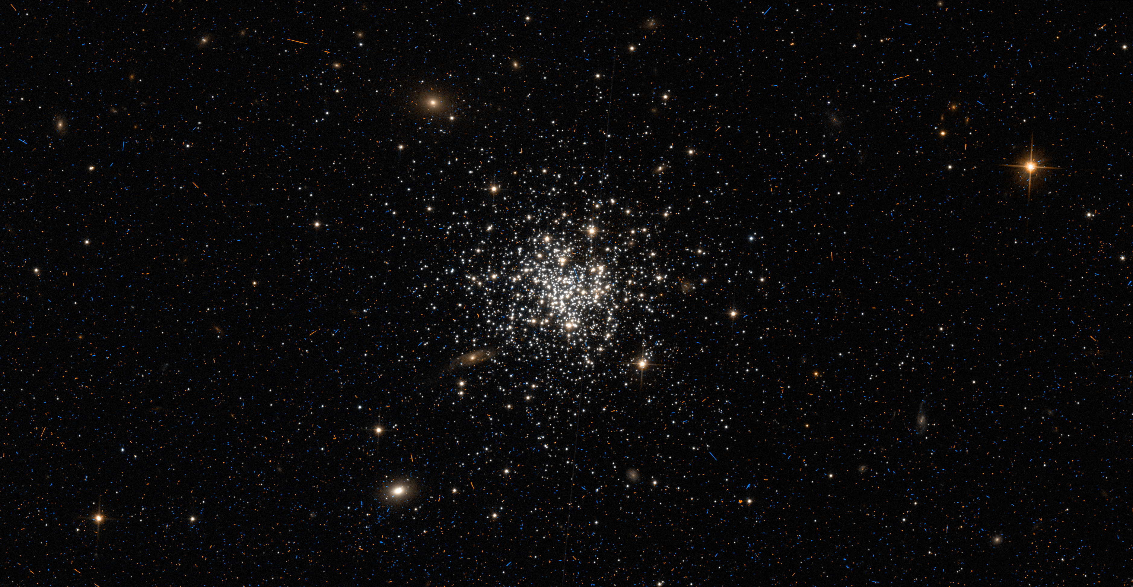 Color rendering is done by by Aladin-software (2000A&AS..143...33B.)